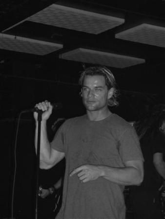 Whit on Stage in the UK, 2002. Medication project.